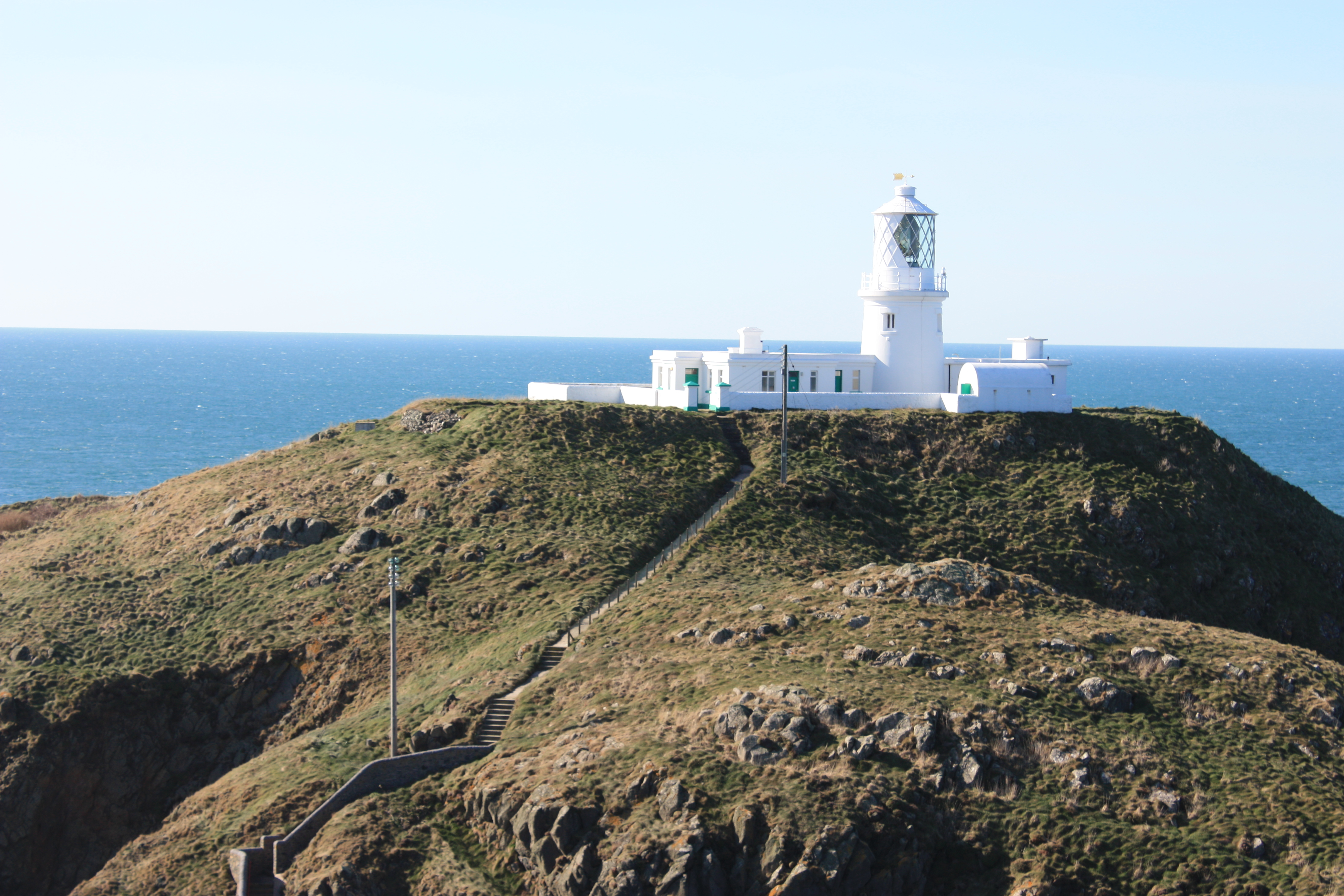 View of Strumble Head Lighthouse, Pembrokeshire